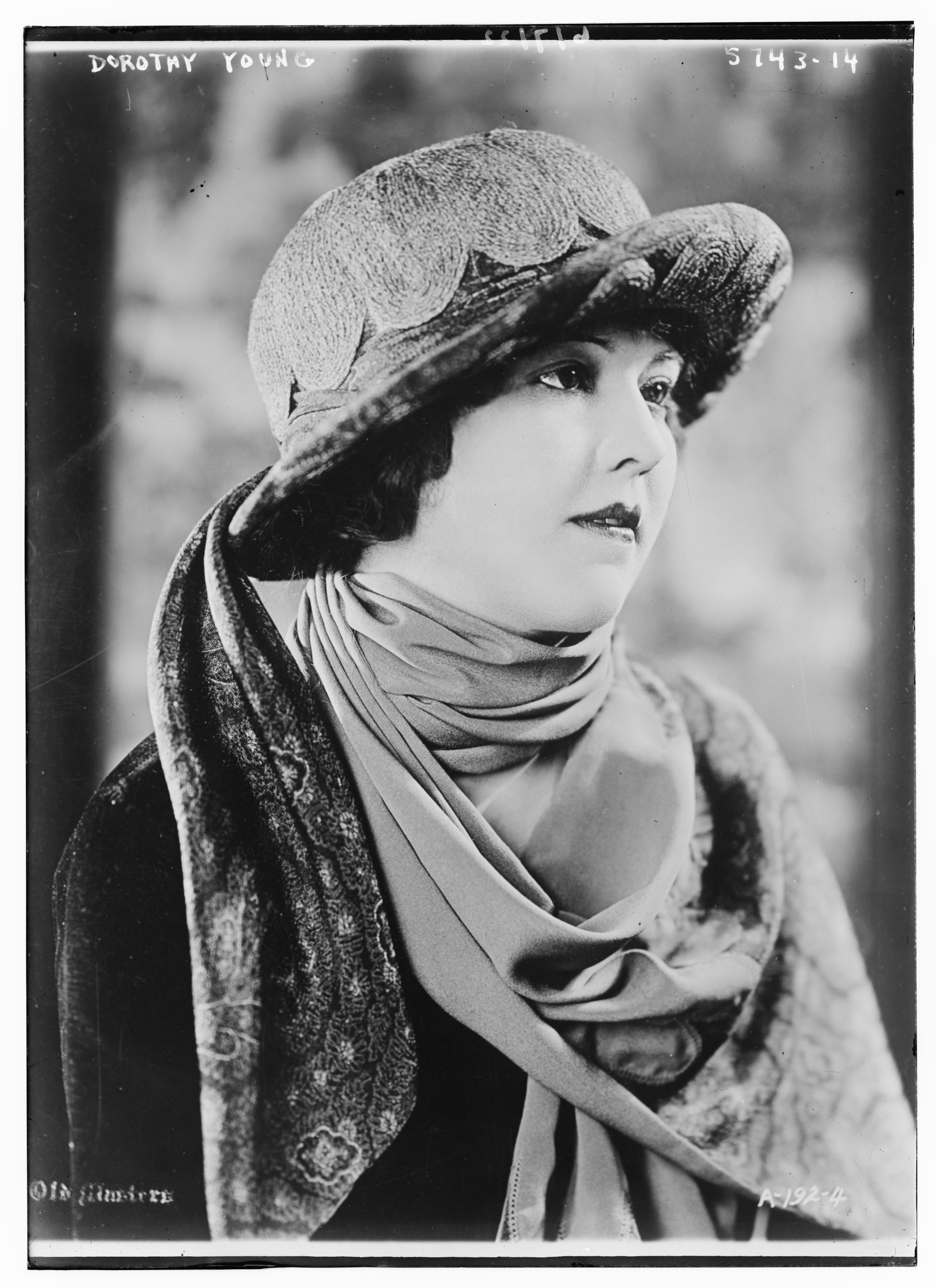 Title: Dorothy Young Abstract/medium: 1 negative : glass ; 5 x 7 in. or smaller.